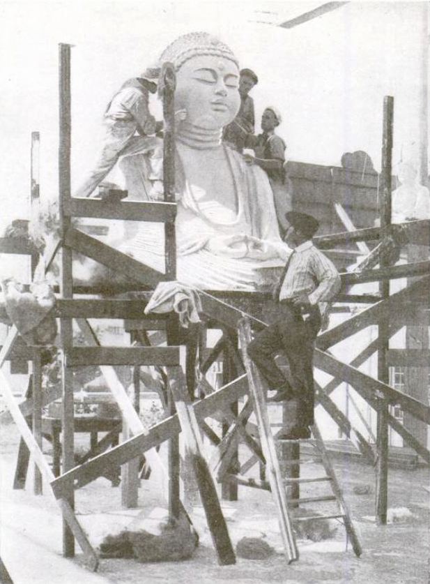 On the set of The Breath of the Gods, a silent movie released in 1920. The original caption reads: They Are Making a Buddha for Motion Pictures - When preparations were being made recently at Universal City for the motion picture production of "The Breath of the Gods," in which the Japanese actress, Tsuro Aoki, was to be starred, a huge Buddha, such as those found in temples of Japan, was constructed under the supervision of a noted Japanese artist, C. S. Ito.